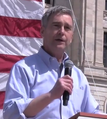 Minnesotan politician David Hann at a rally in favor of tax cuts in 2013 in front of the Minnesota Capitol Building. Screencapped at 00:49.